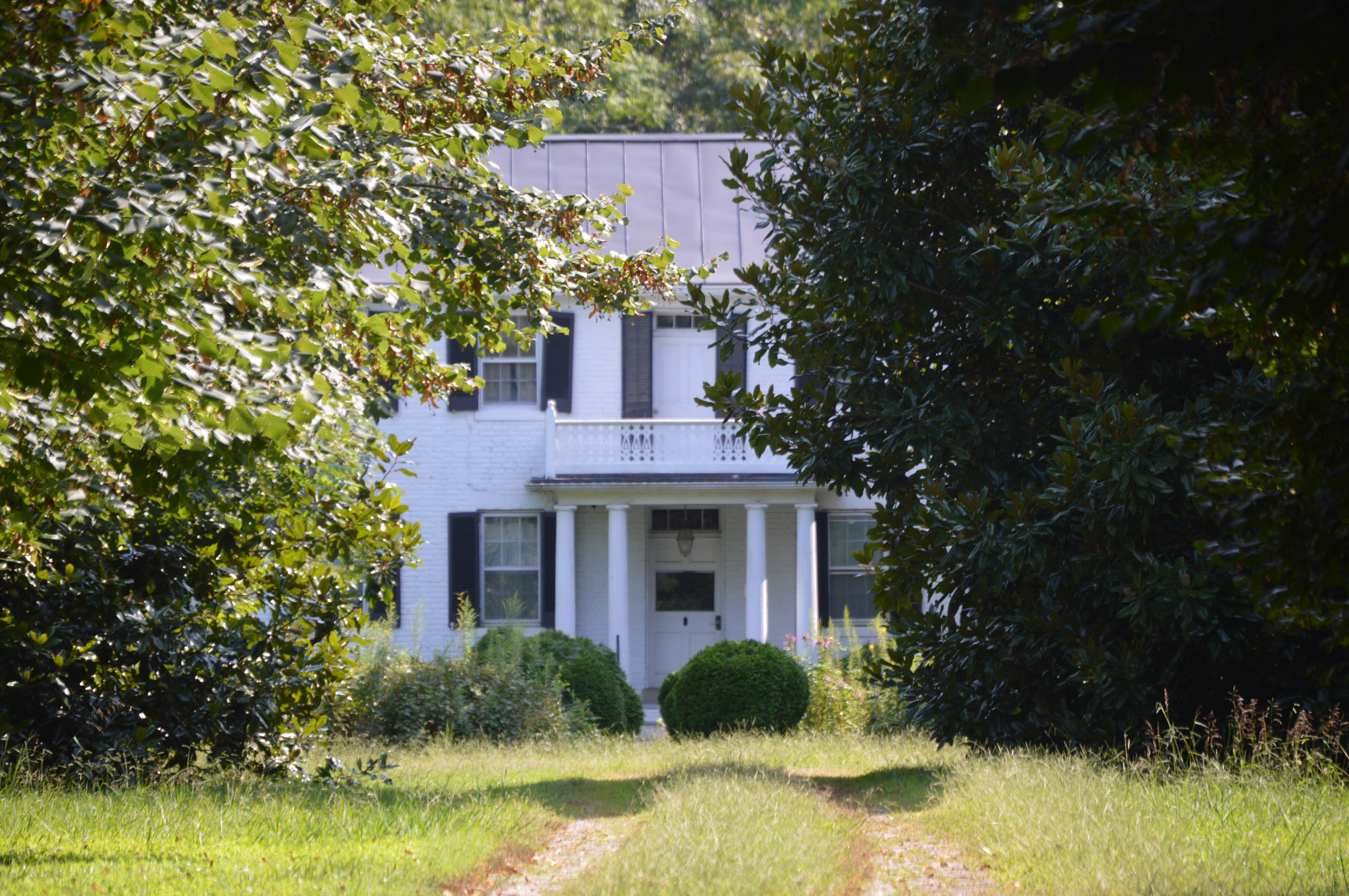 Front of Sunnyside, located on U.S. Route 360 in eastern Heathsville, Virginia, United States. Built in 1822, it is listed on the National Register of Historic Places.